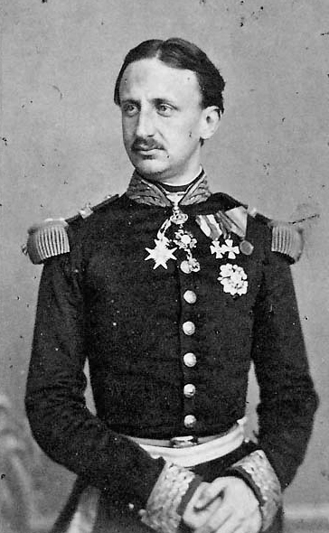 Francis II. King of the Two Sicilies, Infante of Spain